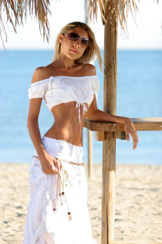 Young woman in white skirt on the beach012 dicembre